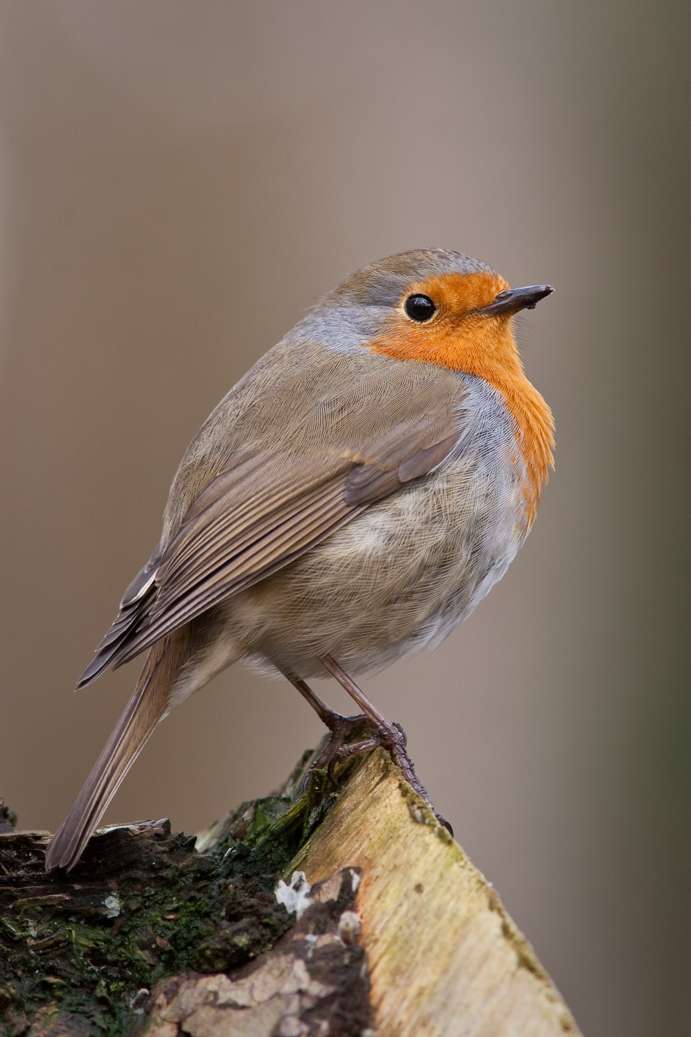 European Robin in the Netherlands.